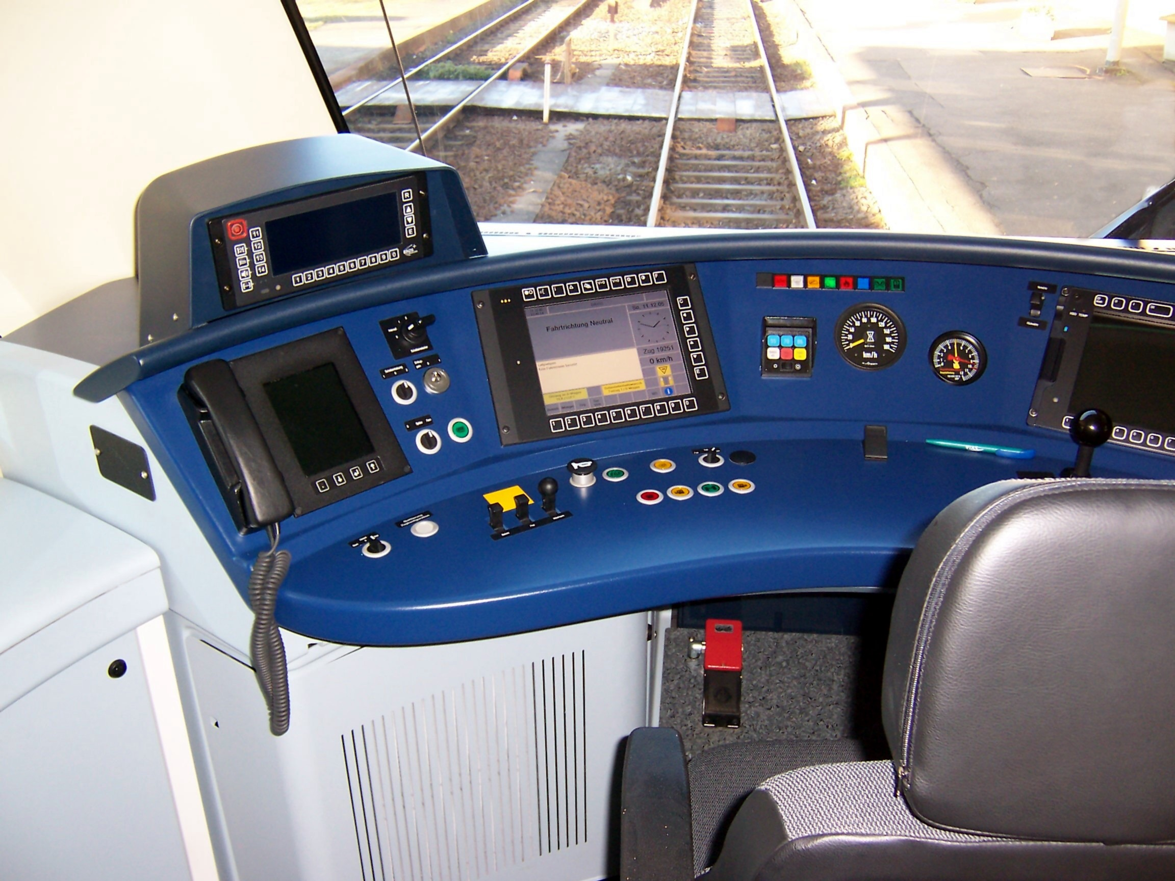 Drivers Desk on a Diesel Railcar ITINO in Germany Source self taken Photo Date: 11. Dec. 2005 Germany